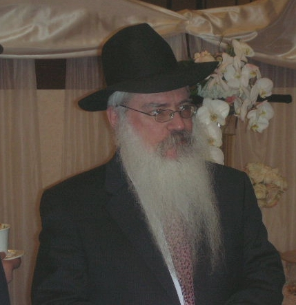 Rabbi Manis Friedman, copied from Wikipedia and originally taken at the wedding of Manis Friedman's niece, Sarah Kranz (to Yossi Ciment).